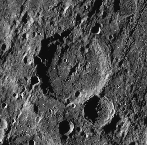 LRO-WAC, Orientale secondaries, scours and ejecta blanket are evident in the field